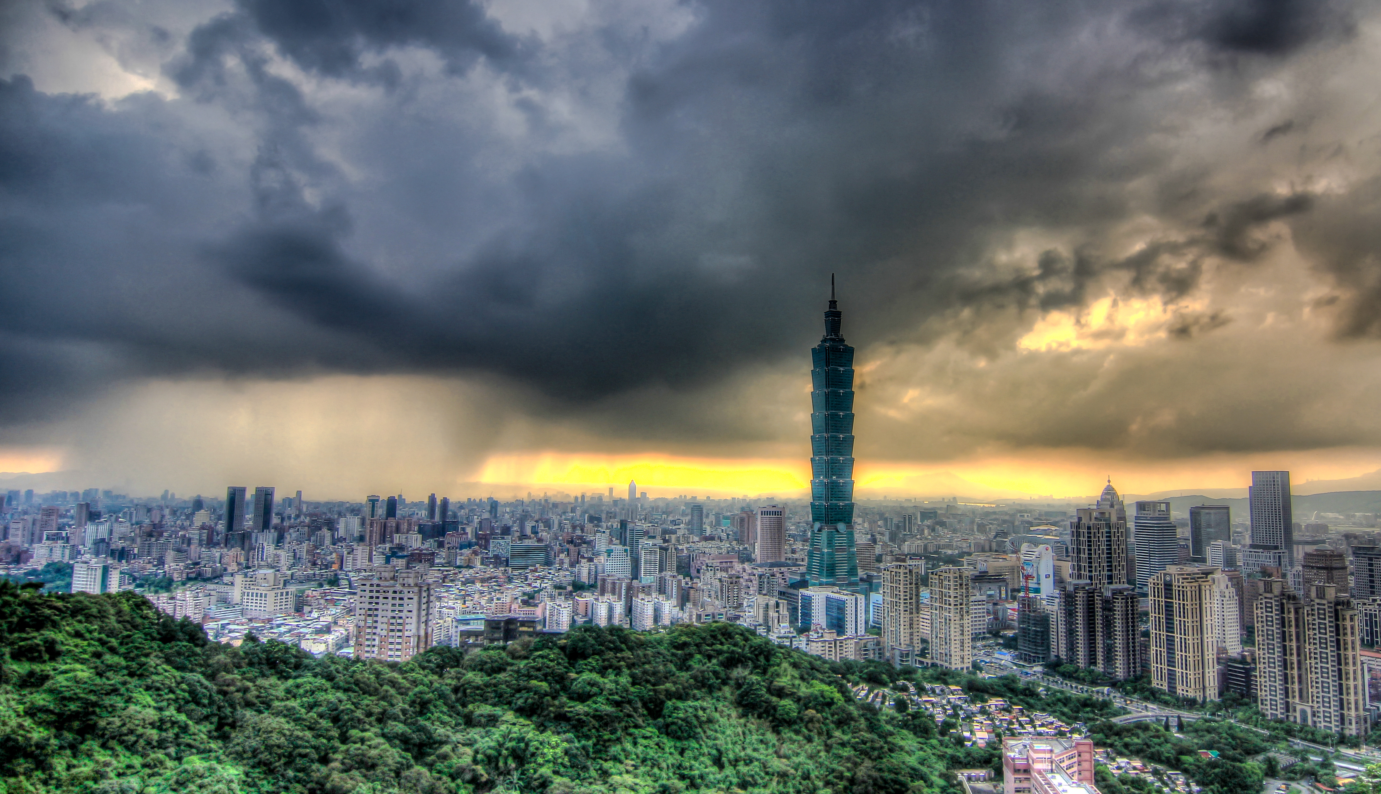 Panoramic cityscape skyline of Taipei Taiwan during a typhoon in July 2015